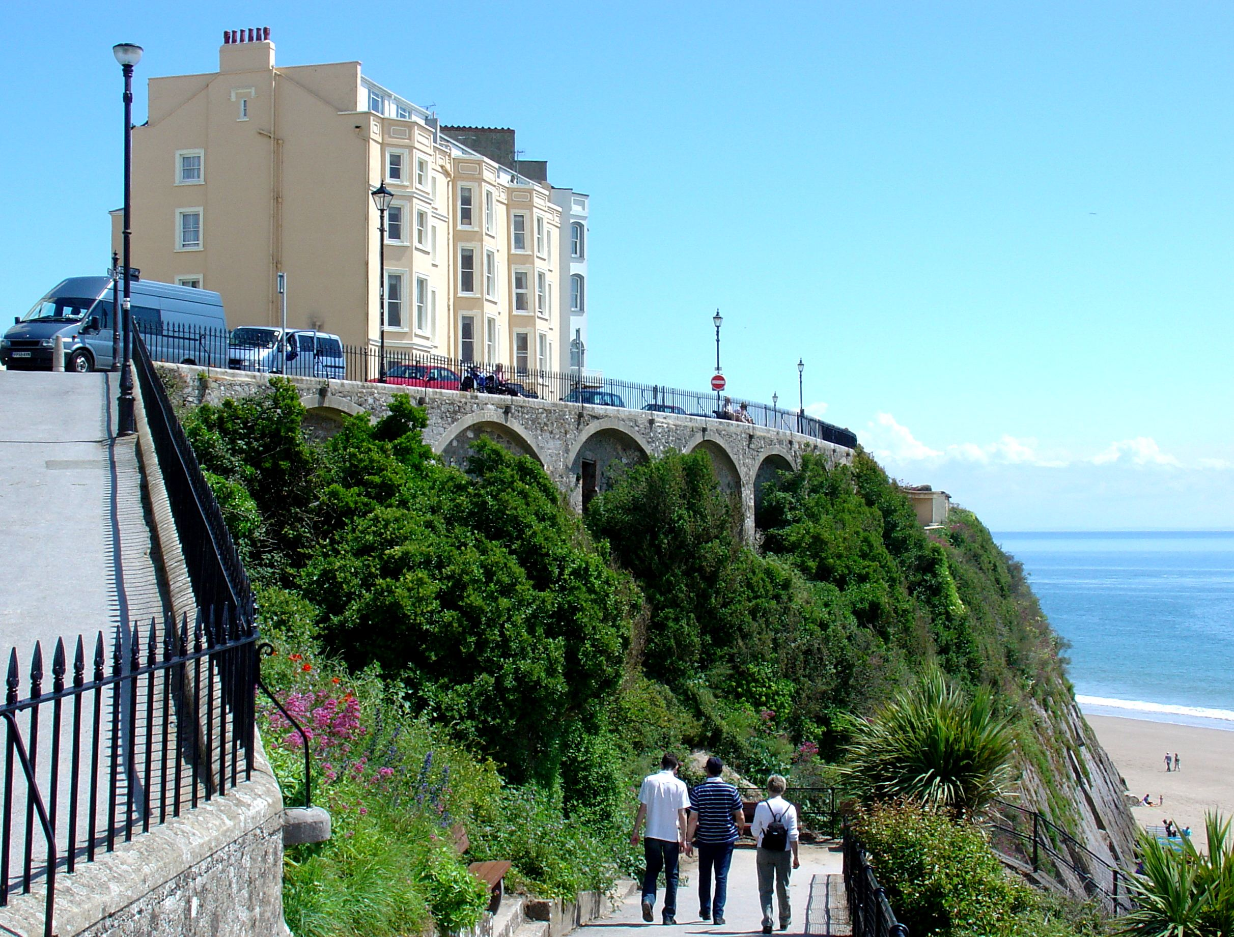 Walking down from the prom at Tenby. Taken by Aeronian on 4 June, 2007 Aeronian's images User:Aeronian/Images